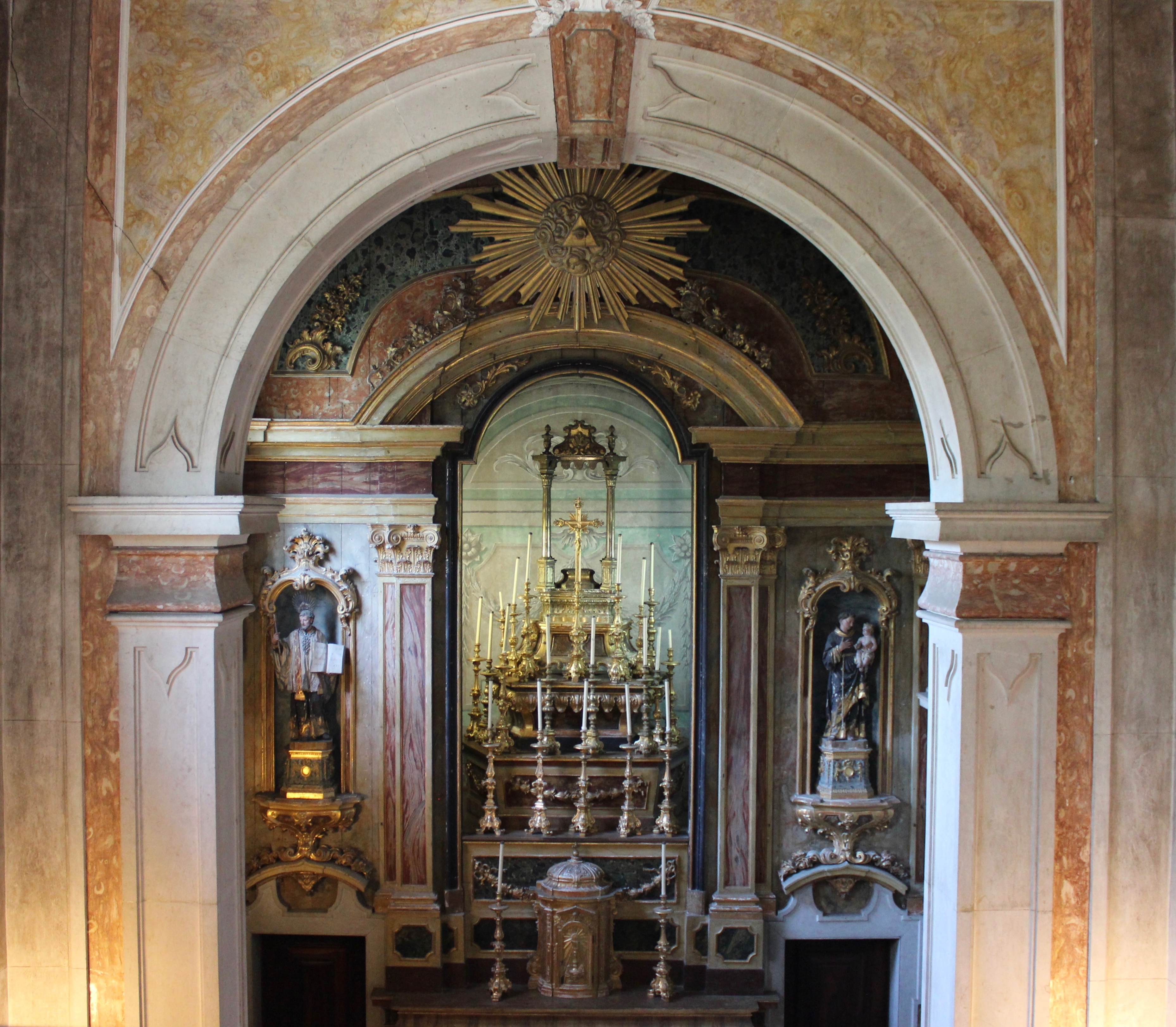 Chapel, Angeja-Palmela Palace, National Museum for Costume and Fashion